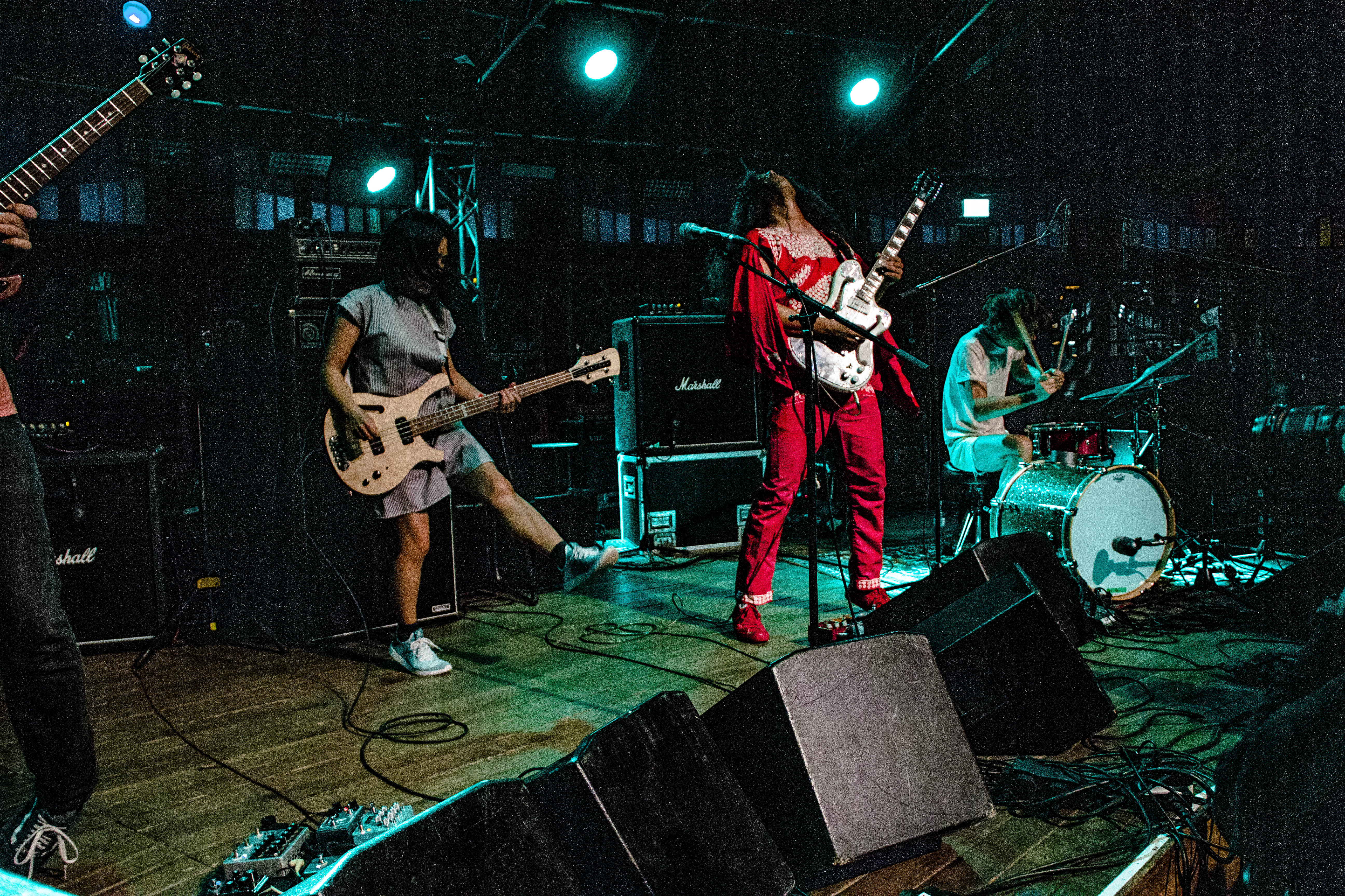 Deerhoof at Haldern Pop Festival 2018 in Haldern